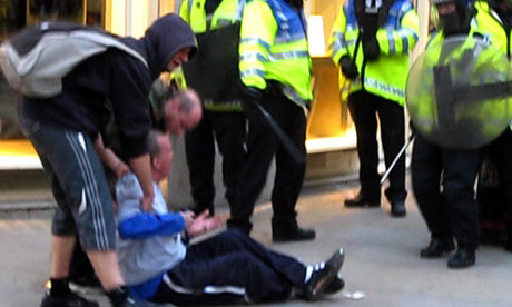 Still from video footage obtained by The Guardian showing the aftermath of what appears to be a police assault on Ian Tomlinson in London, 1 April 2009. The video was shot by an investment fund manager from New York who passed it to the newspaper. He relinquished his copyright and wanted it to be distributed freely. The Guardian confirmed this by e-mail. Originally uploaded 06:54, 10 April 2009 (UTC) to Wikipedia (log) by SlimVirgin (talk | contribs).